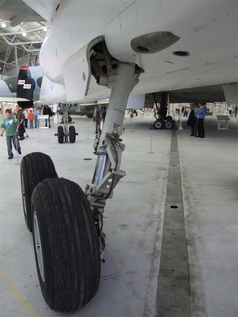 The TSR 2s undercarraige was designed to operate from any reasonably level surface, even grass strips.